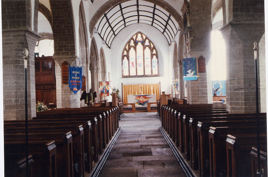 St George, Modbury, Devon - East end